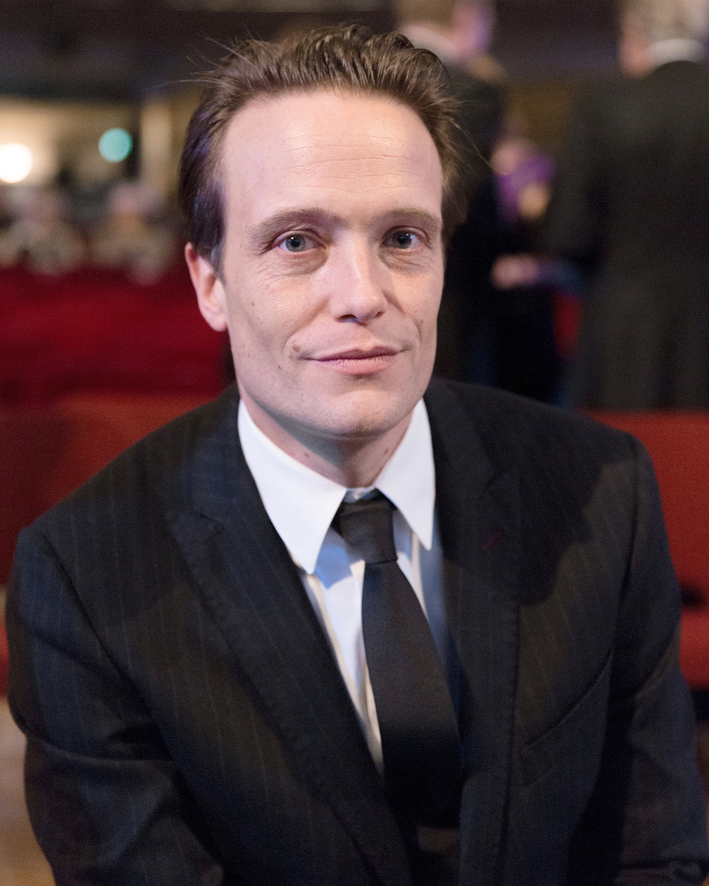 August Diehl at the Nestroy Theatre Awards 2016 (Ronacher, Vienna, Austria).